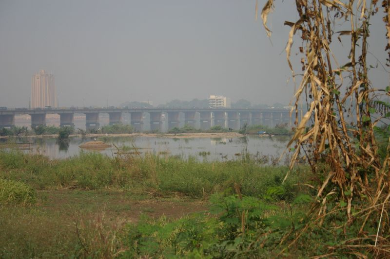 Old bridge in Bamako, Mali